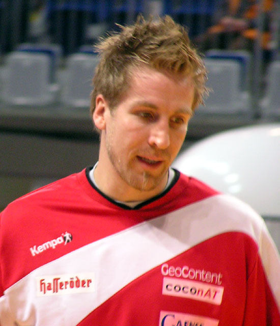 Oliver Roggisch, on February 21st 2007 in Mannheim SAP Arena (Germany), prior the game SG Kronau-Östringen - SC Magdeburg (32:27).